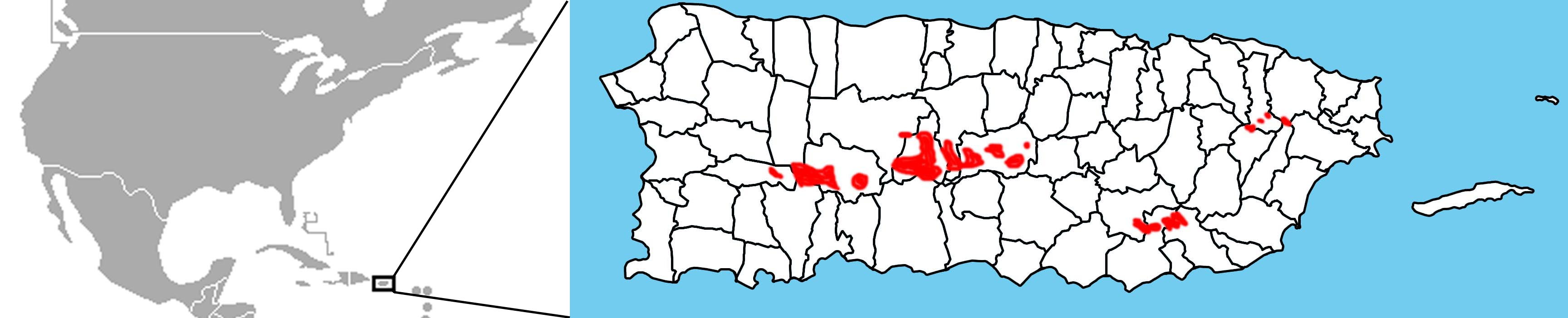 Distribution of the Elfin-woods Warbler.